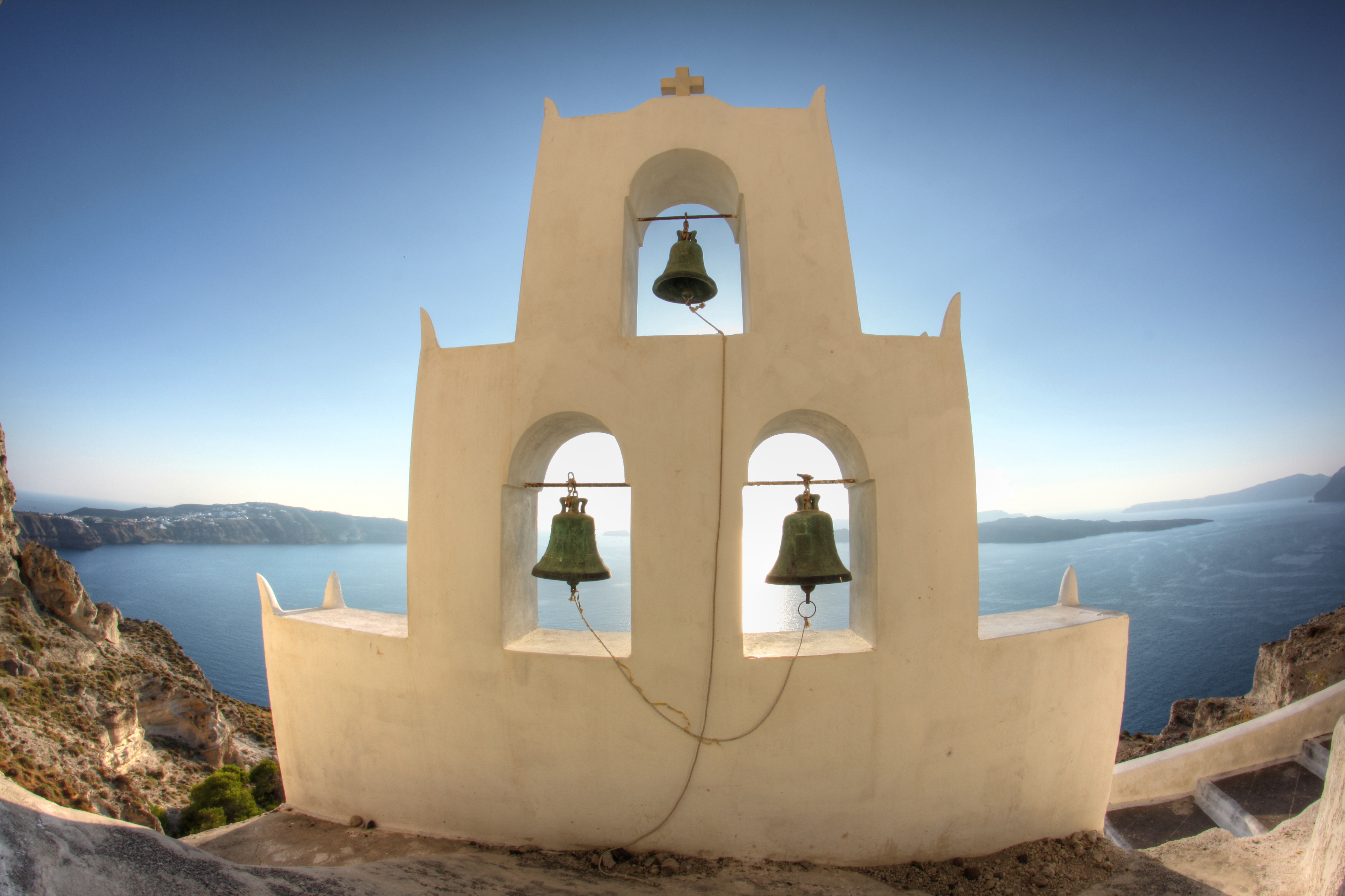 Experimenting with my new fisheye lens...